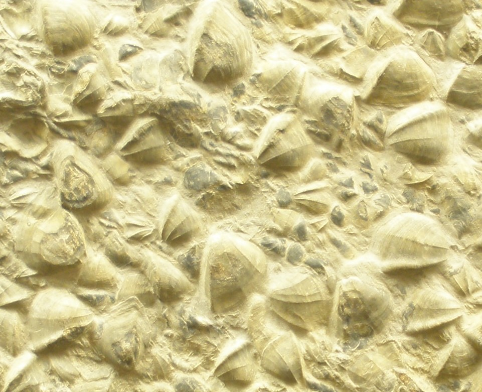 Mass of Myophoria kefersteini fossils, Museo di Storia Naturale di Bergamo